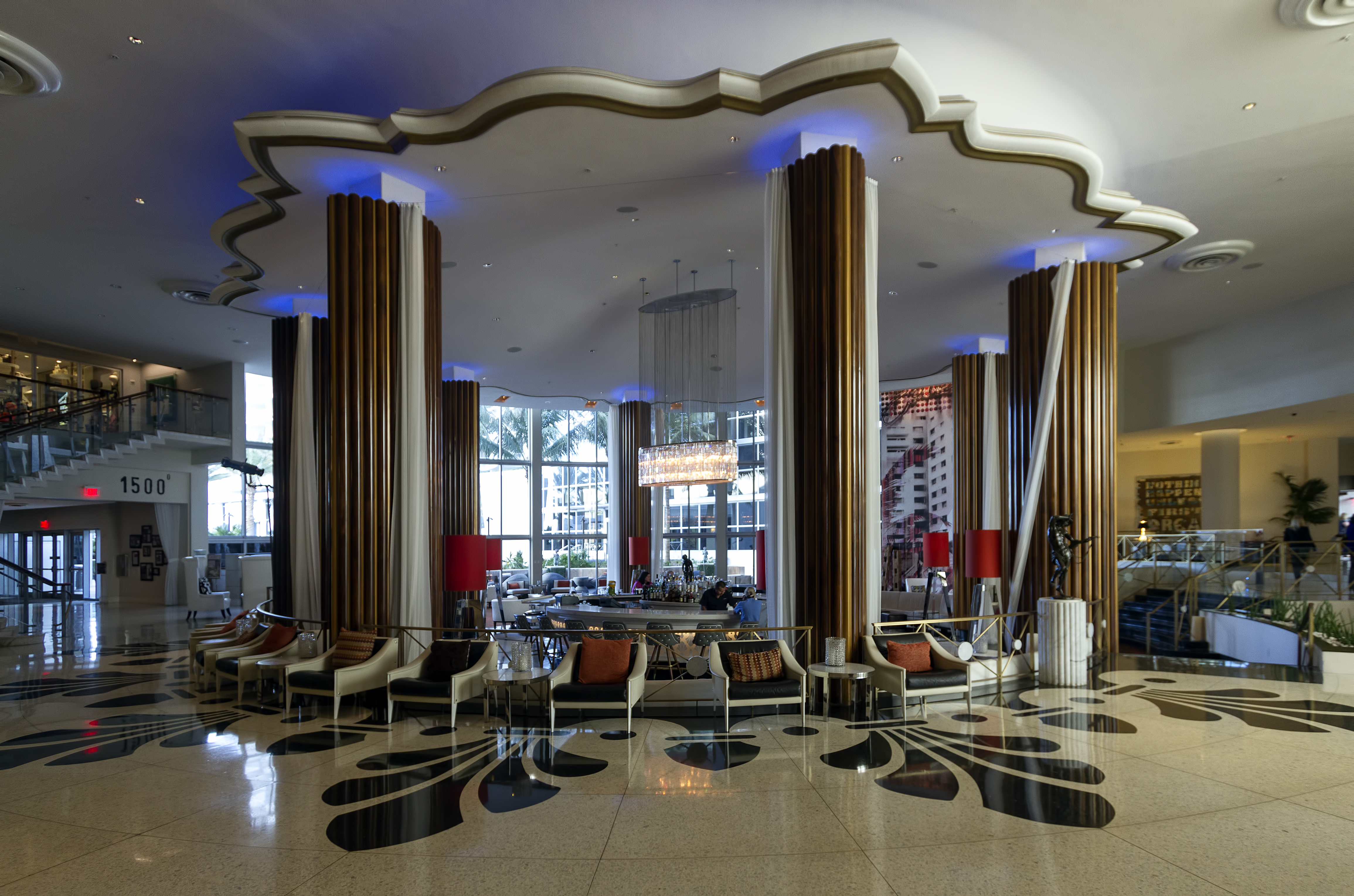 The main lobby of the Eden Roc Hotel in Miami Beach, Florida, USA